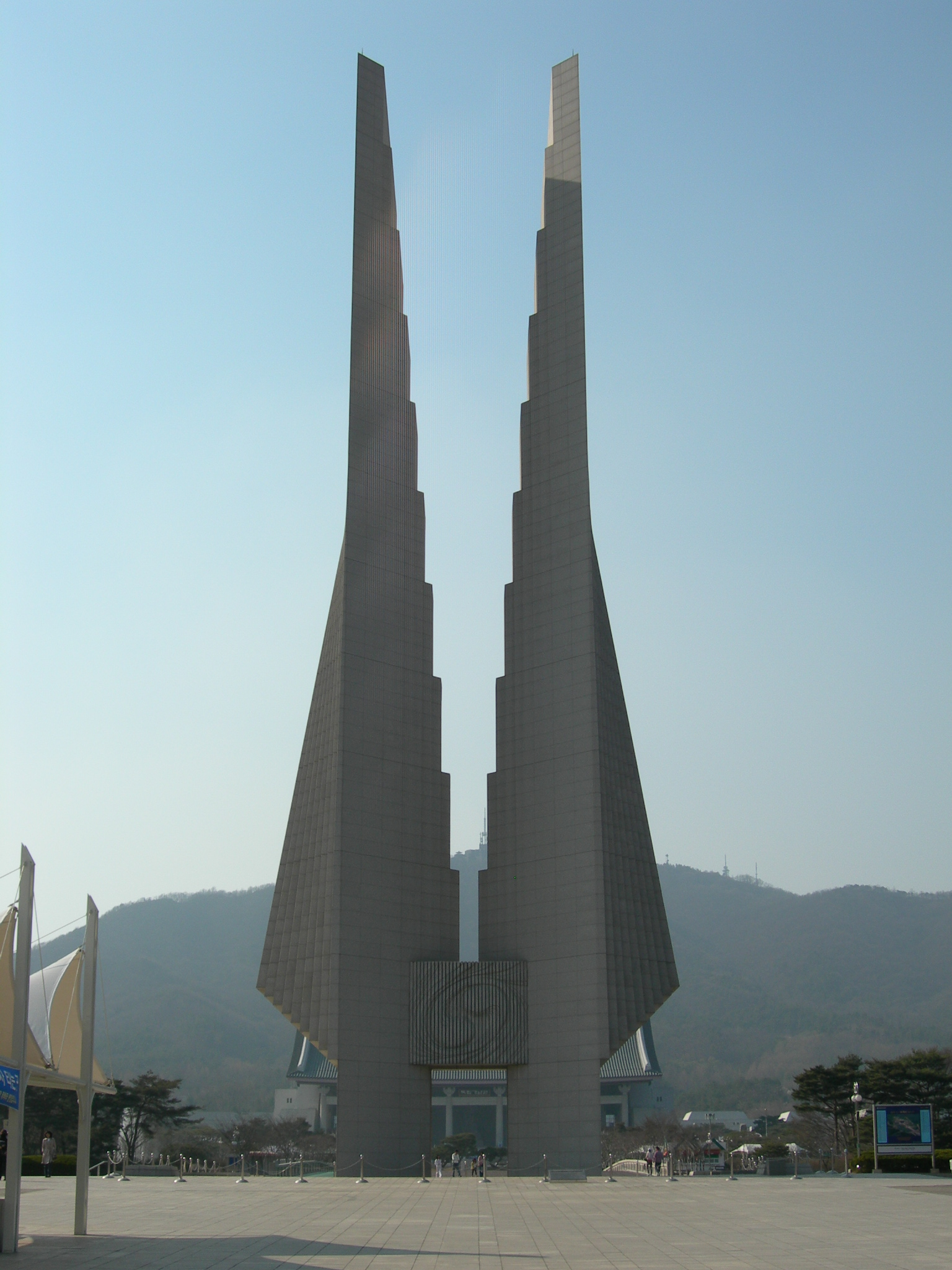 Independance hall of Korea, Cheonan